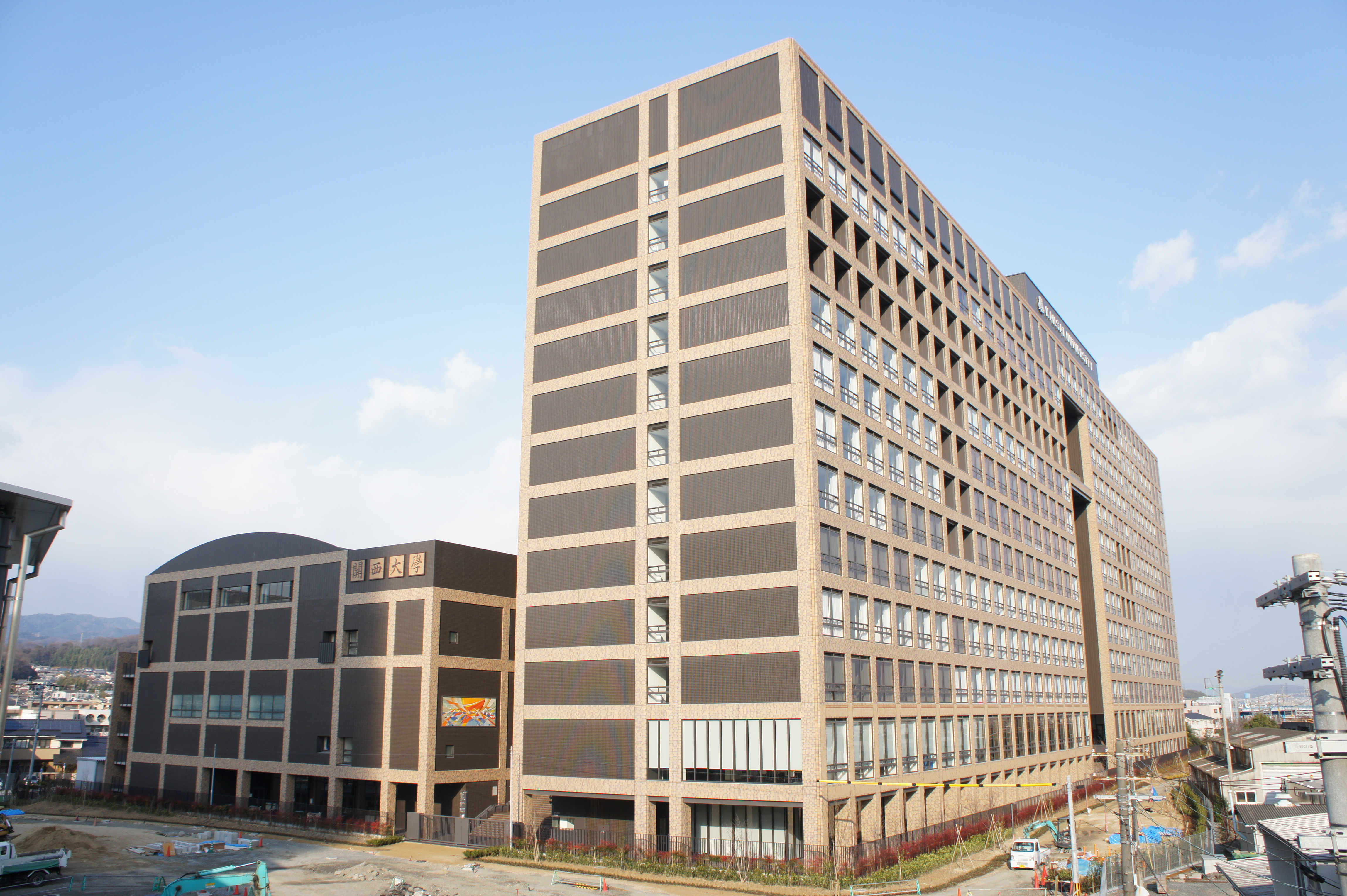 Kansai University Takatsuki Muse Campus, 7-1 Hakubaicho Takatsuki-City Osaka JAPAN